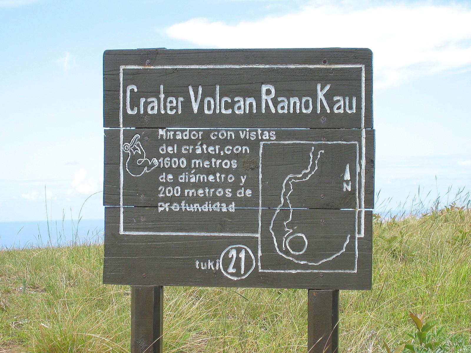 Rano Kau, extinct volcanic crater, Easter Island, Chile